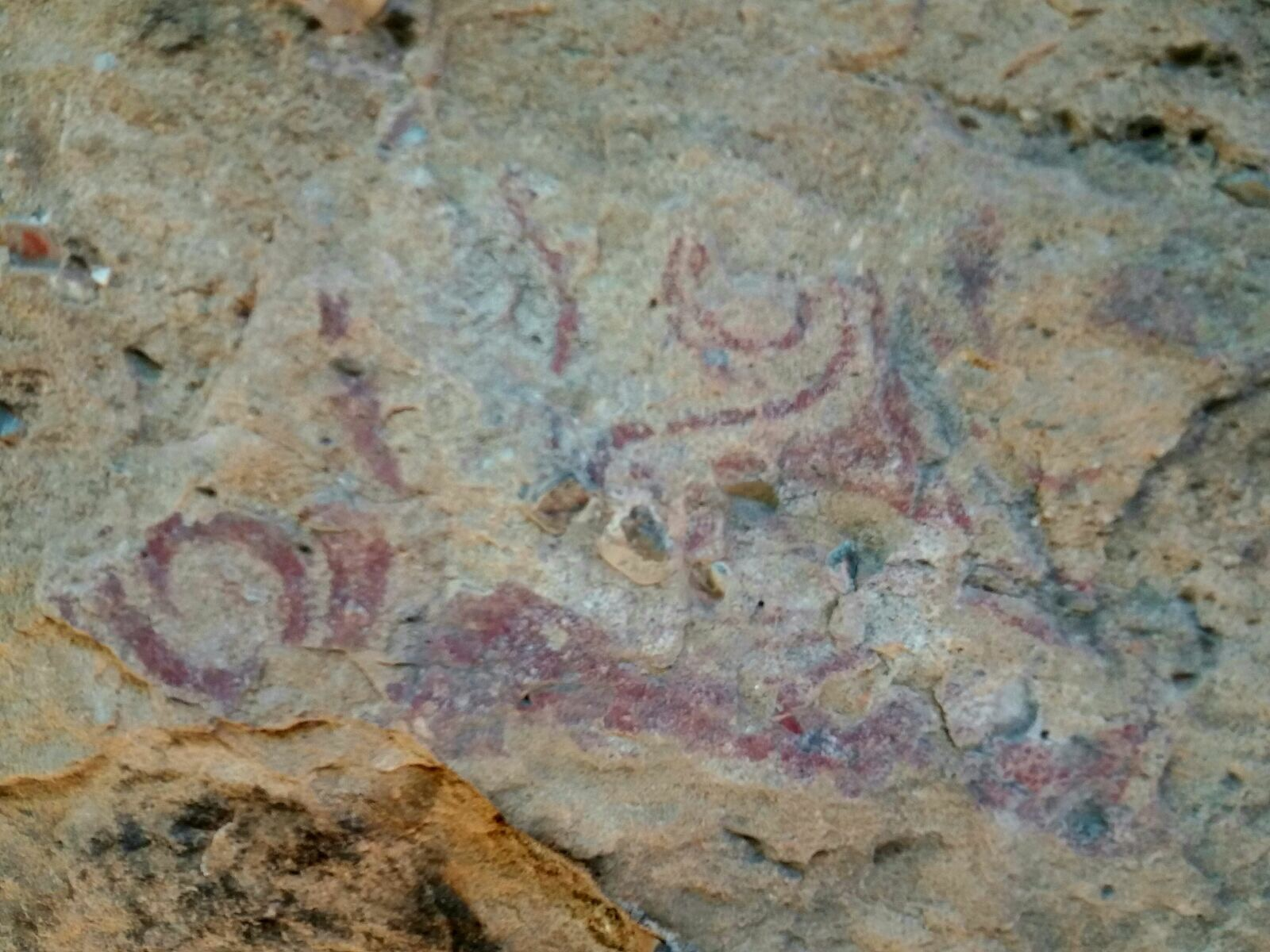 Anthropomorfic figure painting. Abrigo de la Dehesa. Miño de Medinaceli. Soria. Spain.